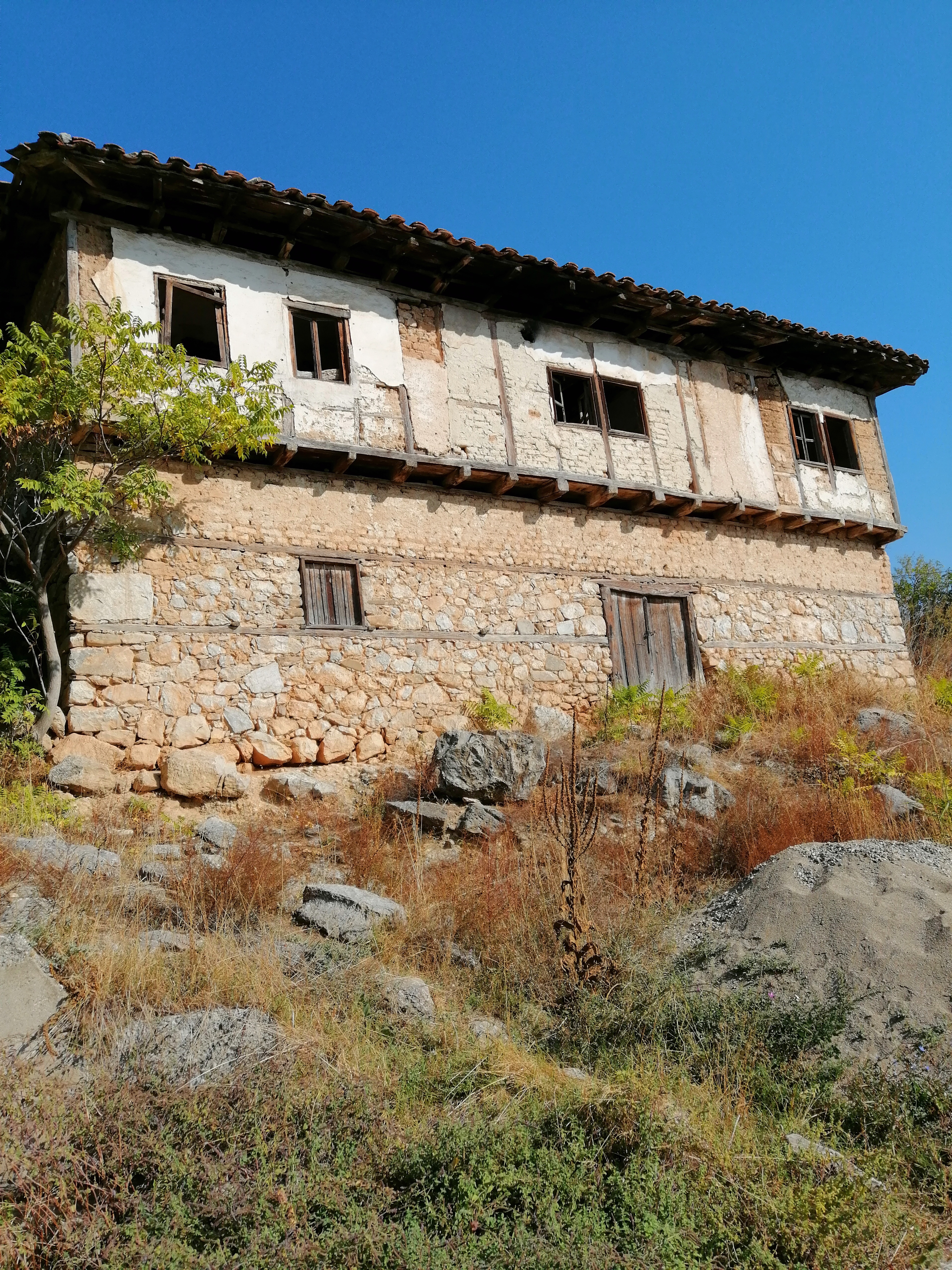 Old house in the village Čučer Sandevo